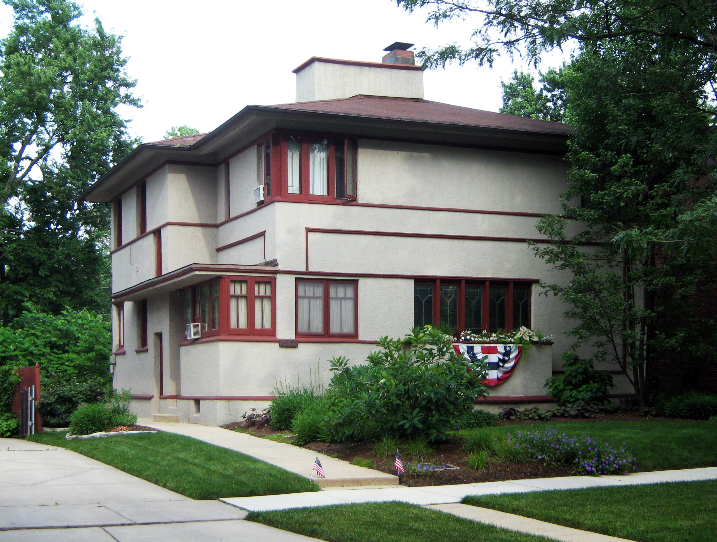 H. Howard Hyde House (1917); one of the American System Built Homes 10541 S Hoyne Ave Chicago, IL 60643 Architect: Frank Lloyd Wright